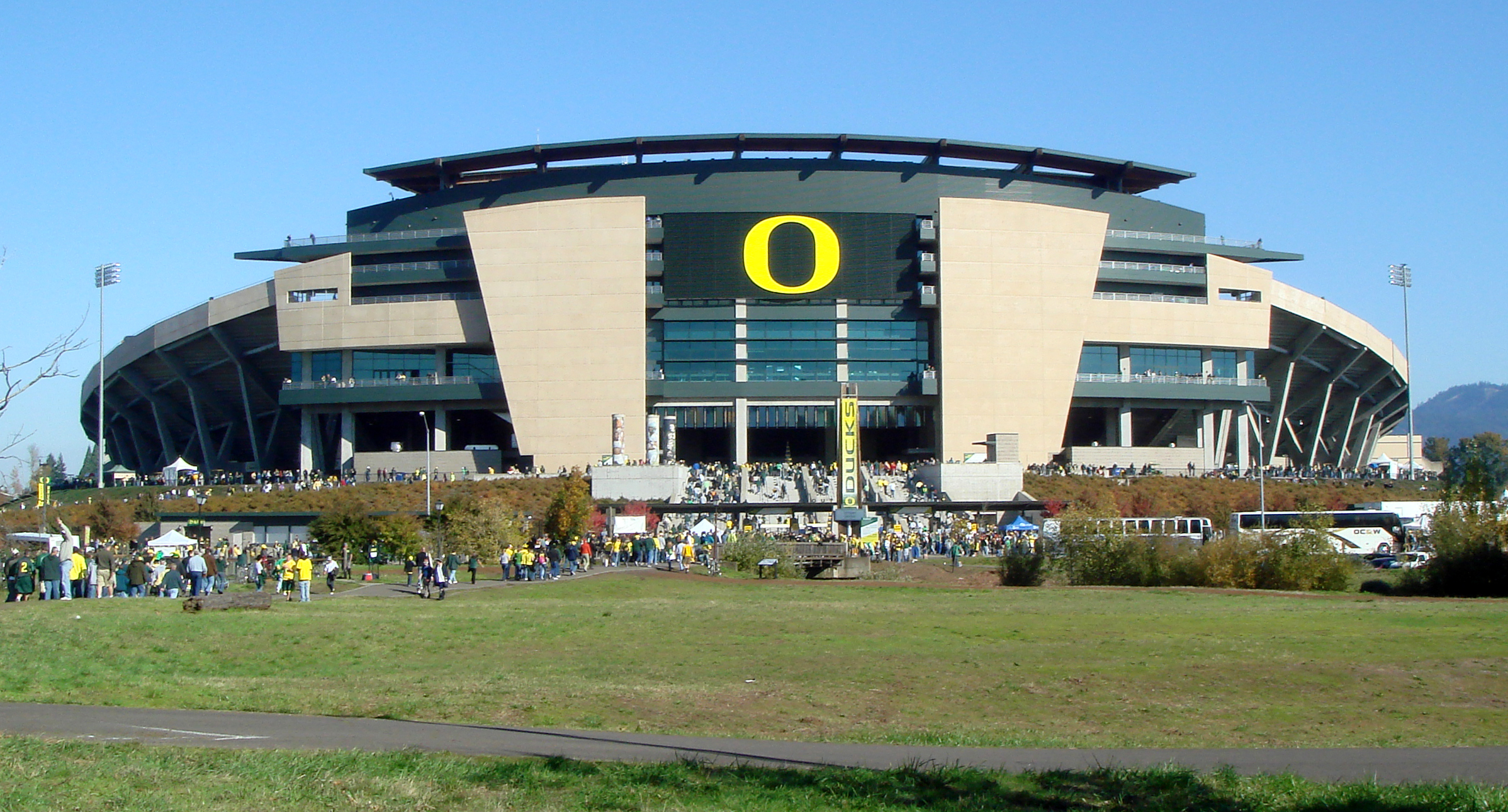 Exterior of Autzen Stadium, home of theUniversity of Oregon Ducks football. The stadium is located directly across the Willamette River from the main campus, and many students and fans walk across a footbridge and through a large park to reach the stadium from its southern end (pictured).